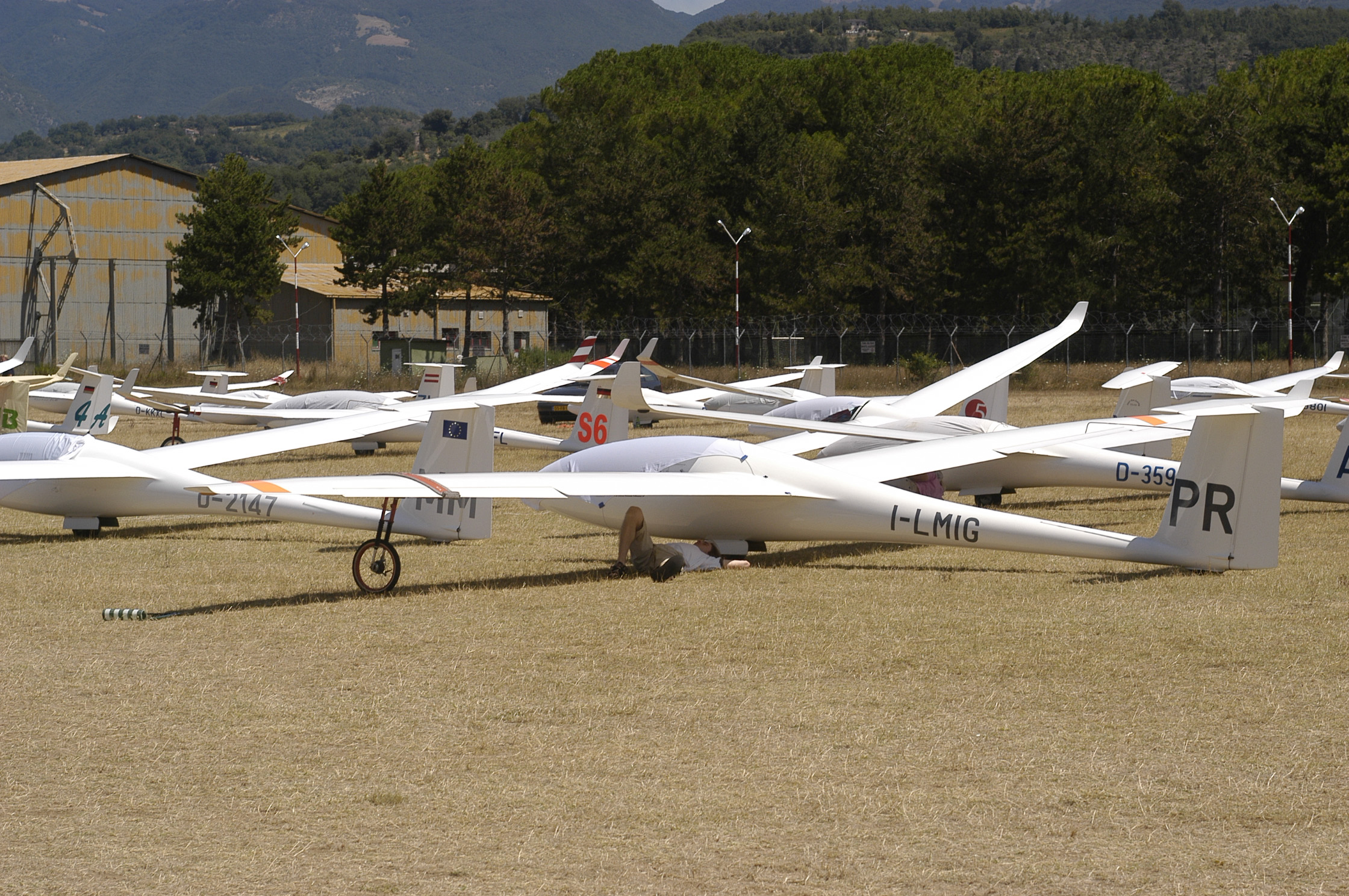 Rieti airport (italy) gliding race